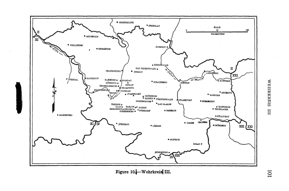 Map of the Wehrkreis, Military District, III.